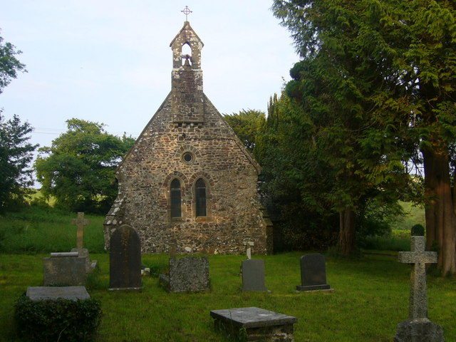 St Canna's Church Canna Saint_Canna is a local woman. ST1676 Canton, Cardiff is named after her.